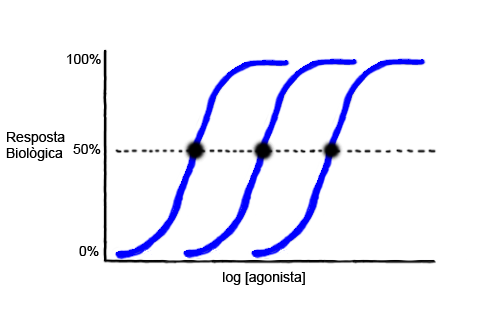 Competitive Antagonists (Catalan)